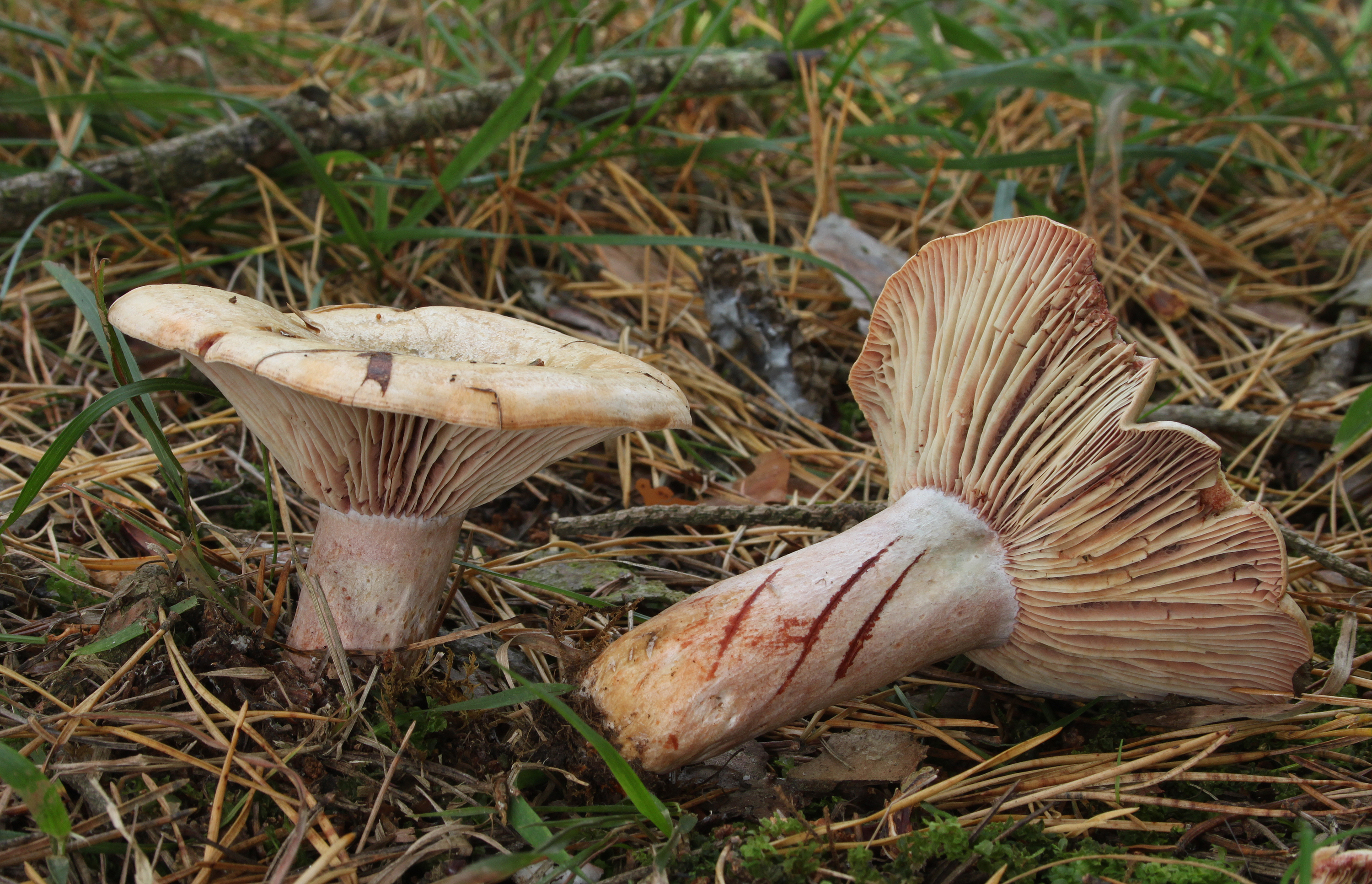 Lactarius sanguifluus, Family: Russulaceae, Location: Germany, Ehingen